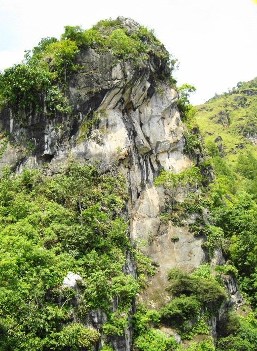 The beauty of the natural scenery of Lake Toba, North Sumatra.